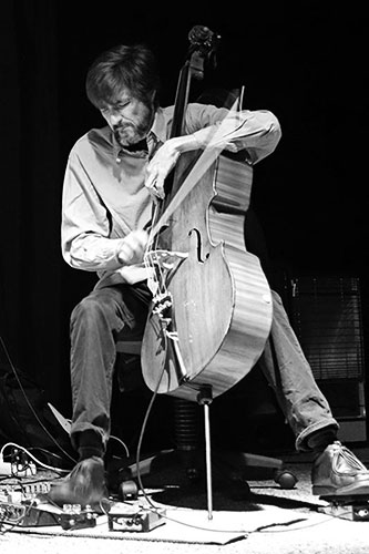 Fred Lonberg-Holm in Aarhus, Denmark 2014